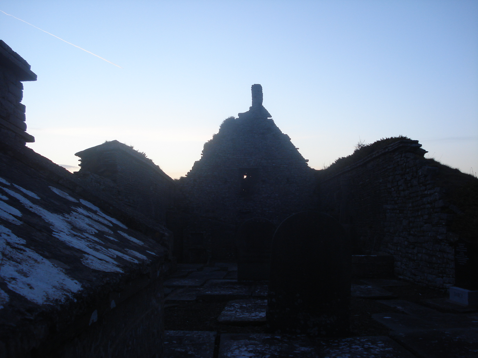 The remains of Kilmurry Church, destroyed by Cromwellian troops